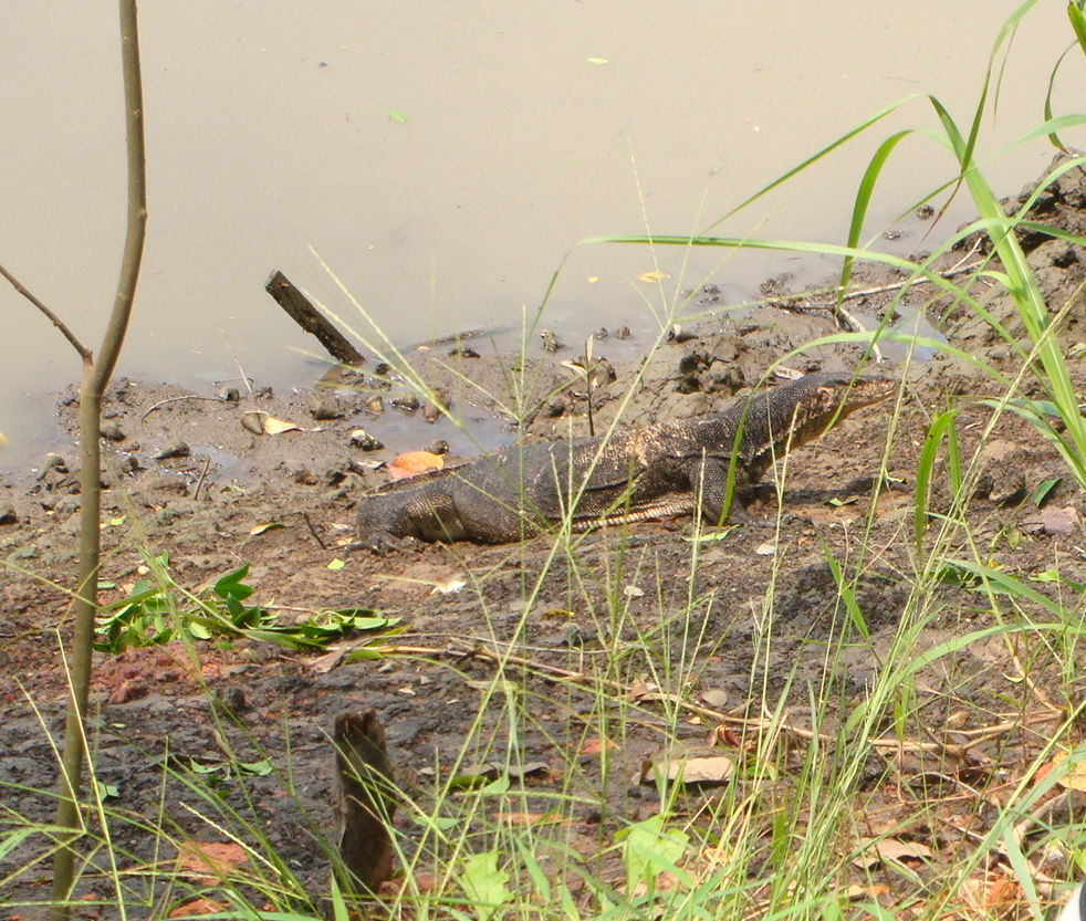 A water monitor (Varanus salvator) in the Sungei Buloh Wetland Reserve, Singapore.